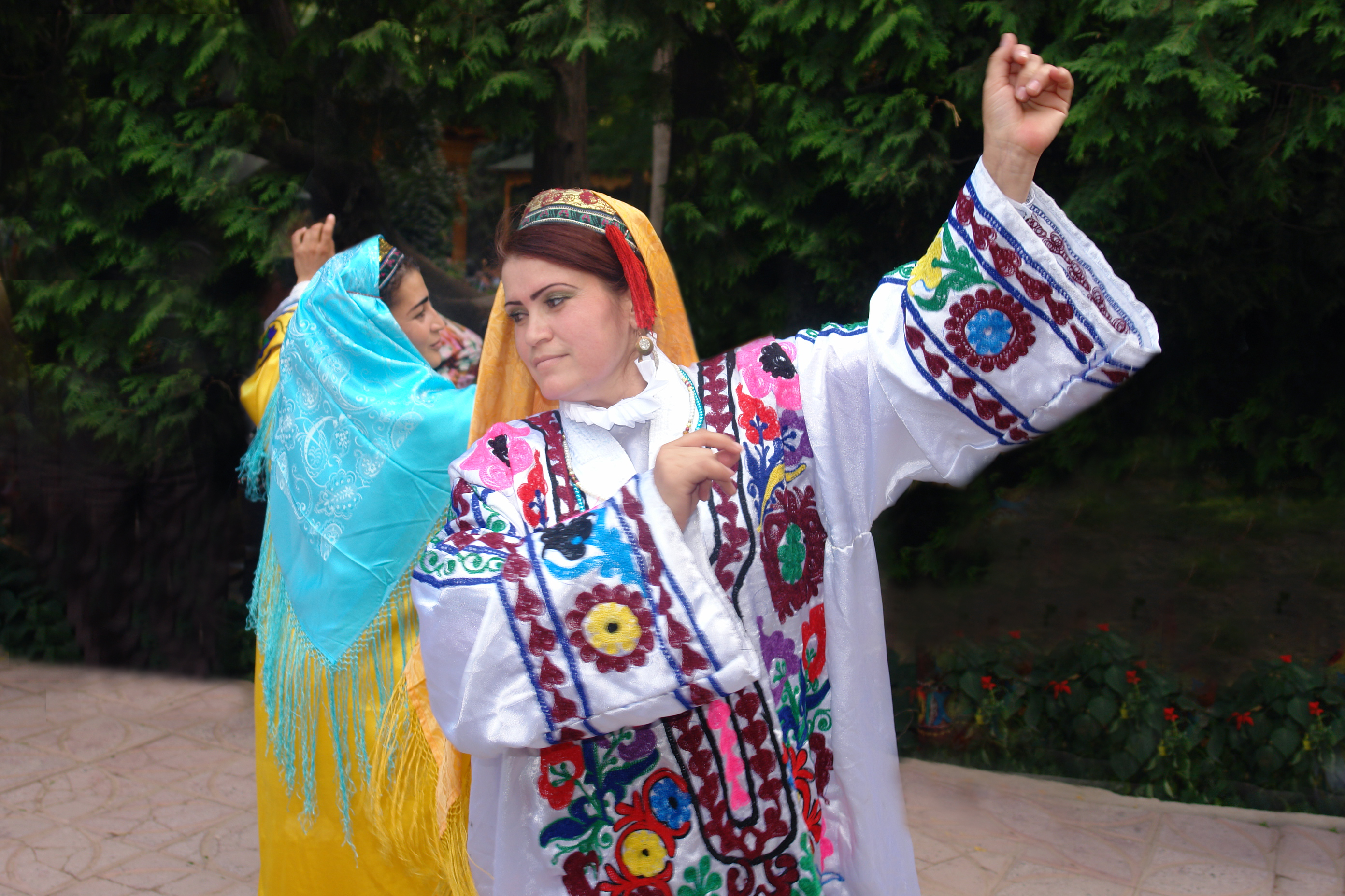 Dance in the national dress, Folk dance of Tajikistan Тоҷикӣ: Рақси остин дар иҷрои занони Тоҷикистон